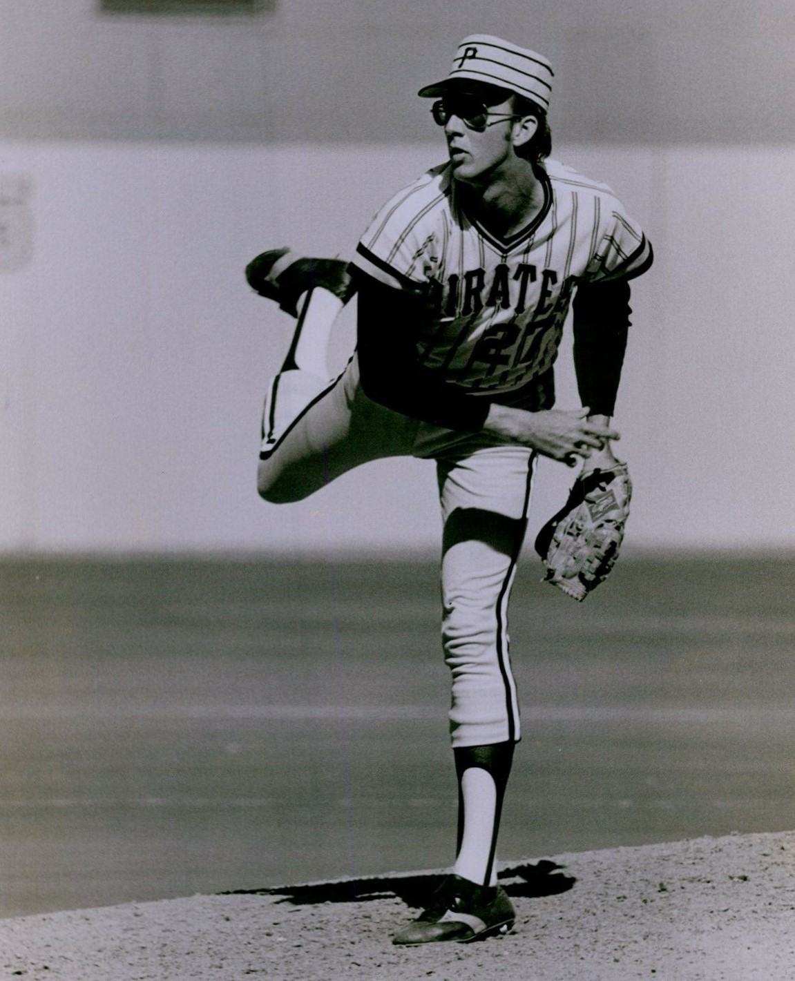 Image cropped from a black and white photo of professional baseball player Kent Tekulve